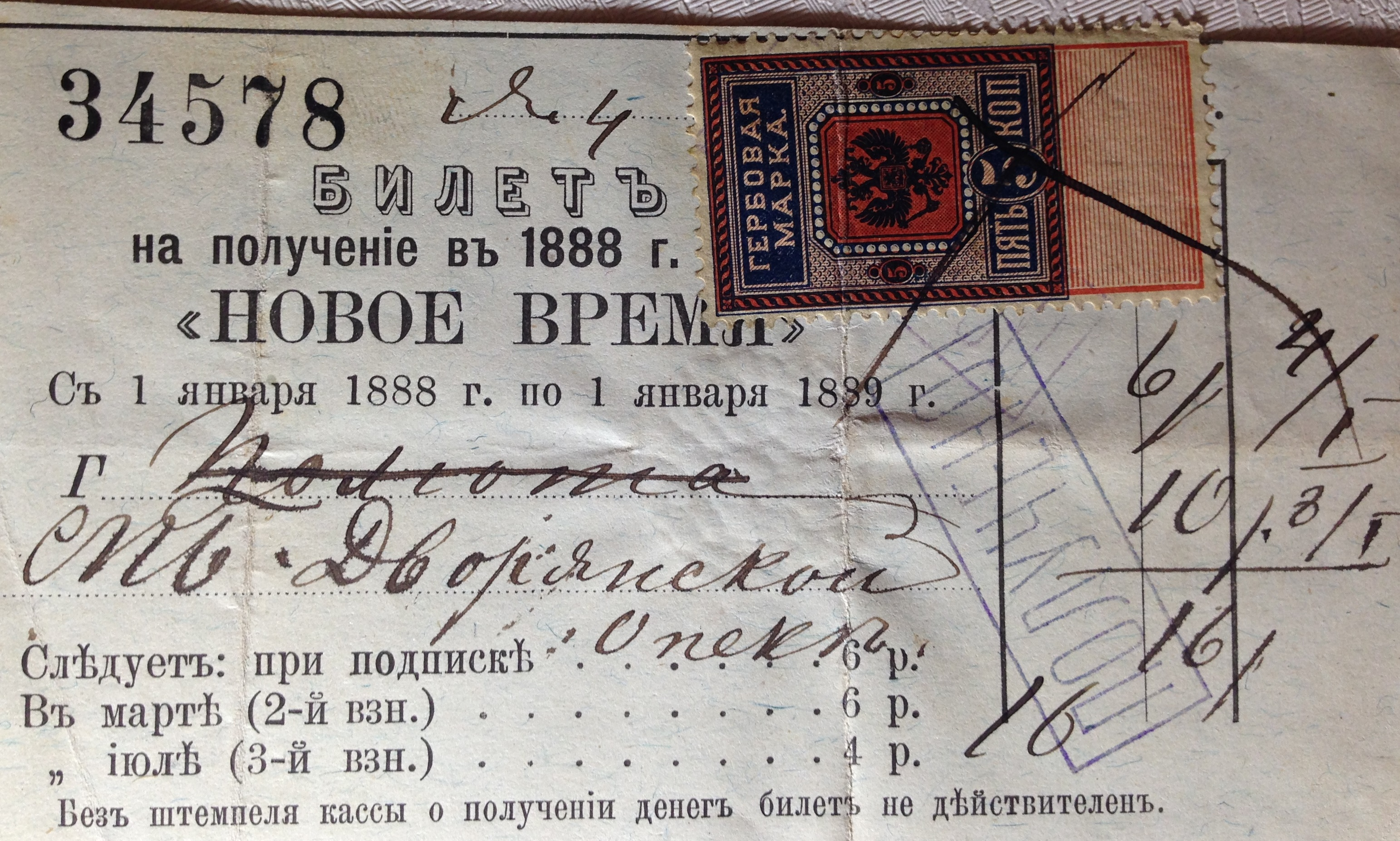 subscription to the Newspaper "New time"